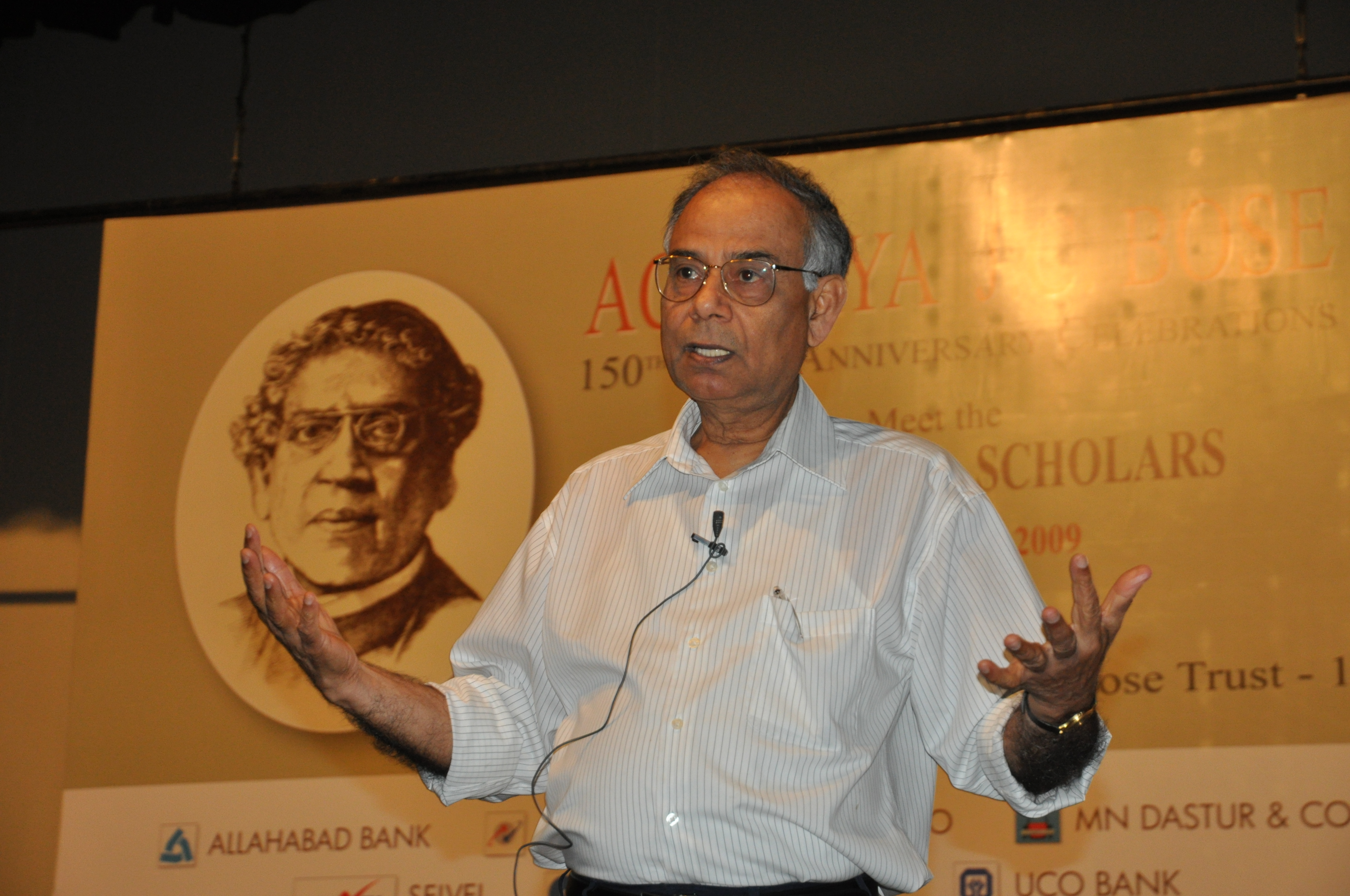 Ananda Mohan Chakrabarty (Bengali: আনন্দমোহন চক্রবর্তী), Ph.D. is an Indian-American microbiologist, scientist, and researcher, most notable for his work in directed evolution and his role in developing a genetically engineered organism using plasmid transfer while working at GE.